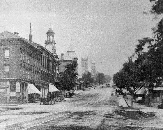 Looking north on Brady Street from Fifth Street in Davenport, Iowa. On the left is the Col. Joseph Young Block (now gone), Wupperman Block/I.O.O.F. Hall, the Old City Hall (with the tower) and the Cook Memorial Library, which has been torn down. Further up the street on the left is the Trinity Episcopal Church and First Presbyterian Church, which was built as St. Luke's Episcopal. On the right is the spire to First Methodist. All of the church congregations moved to other locations and the buildings were torn down.